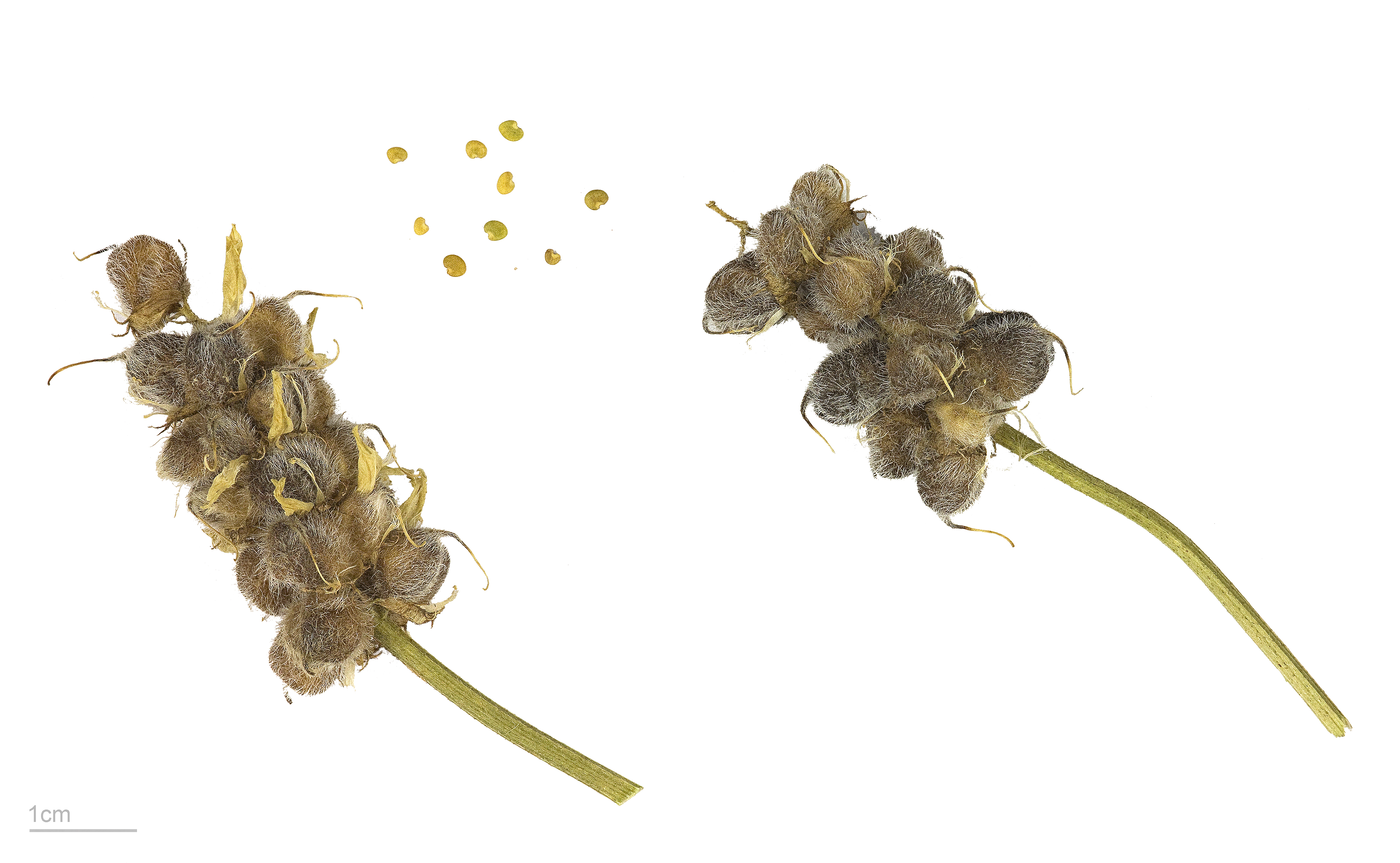 Tragacanth , fruits and seeds